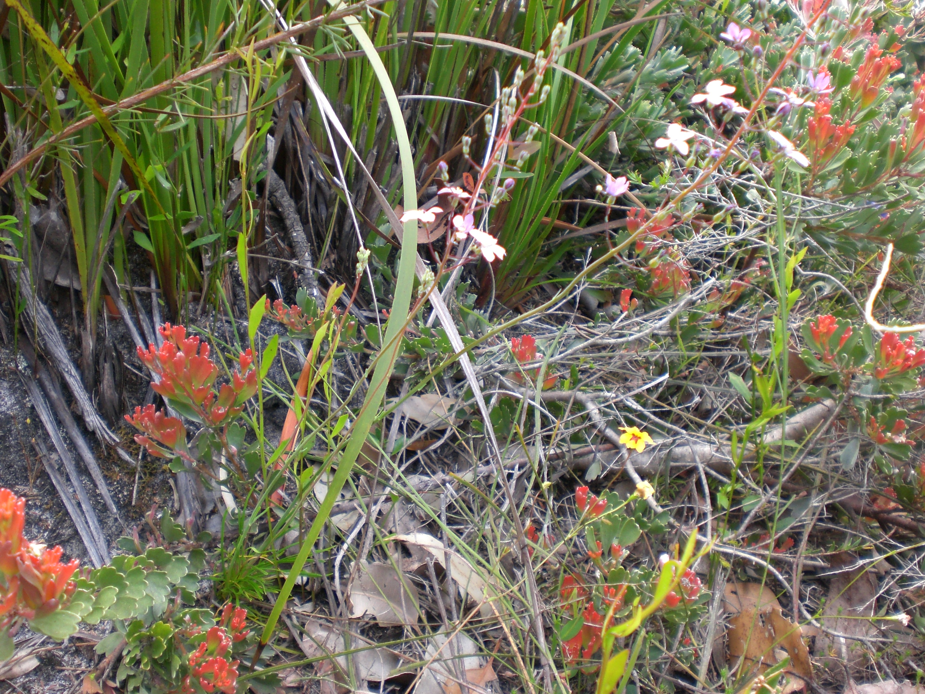 Snapshot as field note, of particular interest is the soil type and habit and foliage of a species of Stylidium (S. violaceum ?), and some other species I haven't bothered to identify yet. The red-leaved shrubs are Adenanthos cuneatus